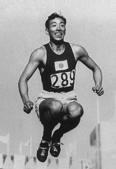 Chuhei Nambu of Japan in action during the Triple Jump event at the 1932 Olympic Games in the Coliseum Stadium, Los Angeles, USA. Nambu won the gold medal with a jump of 15.72 metres.